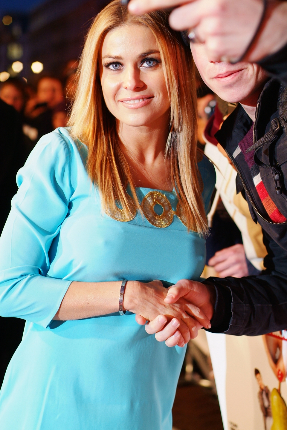 Carmen Electra at I want Candy London Movie Premiere.